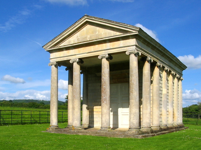 Temple of Harmony, Goathurst, Somerset, England, seen from the east